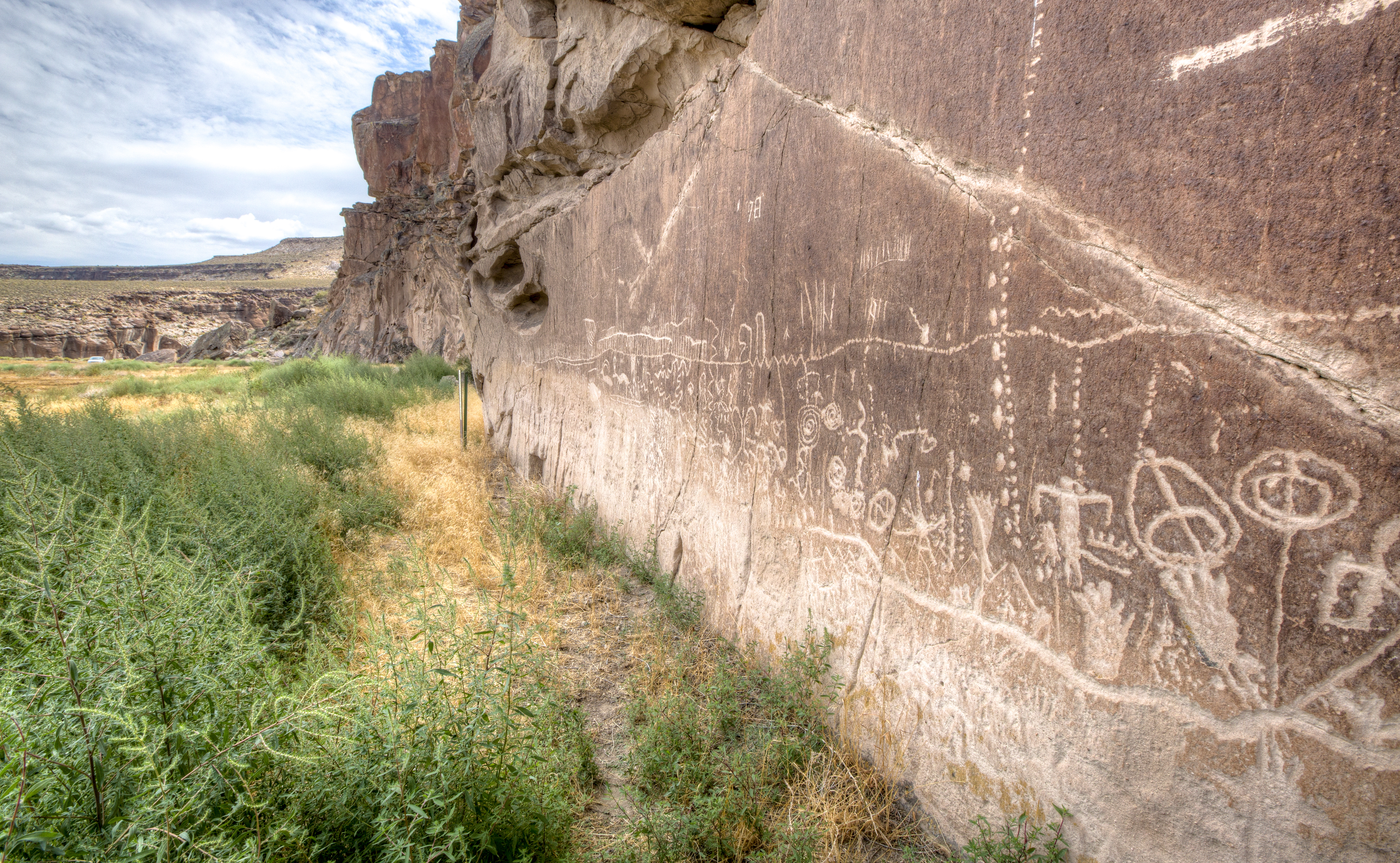 Basin and Range Mt. Irish